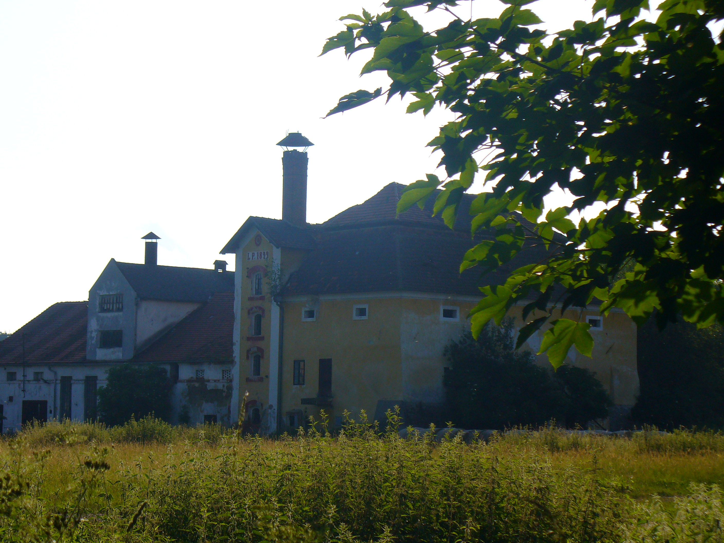 Village Slavoňov